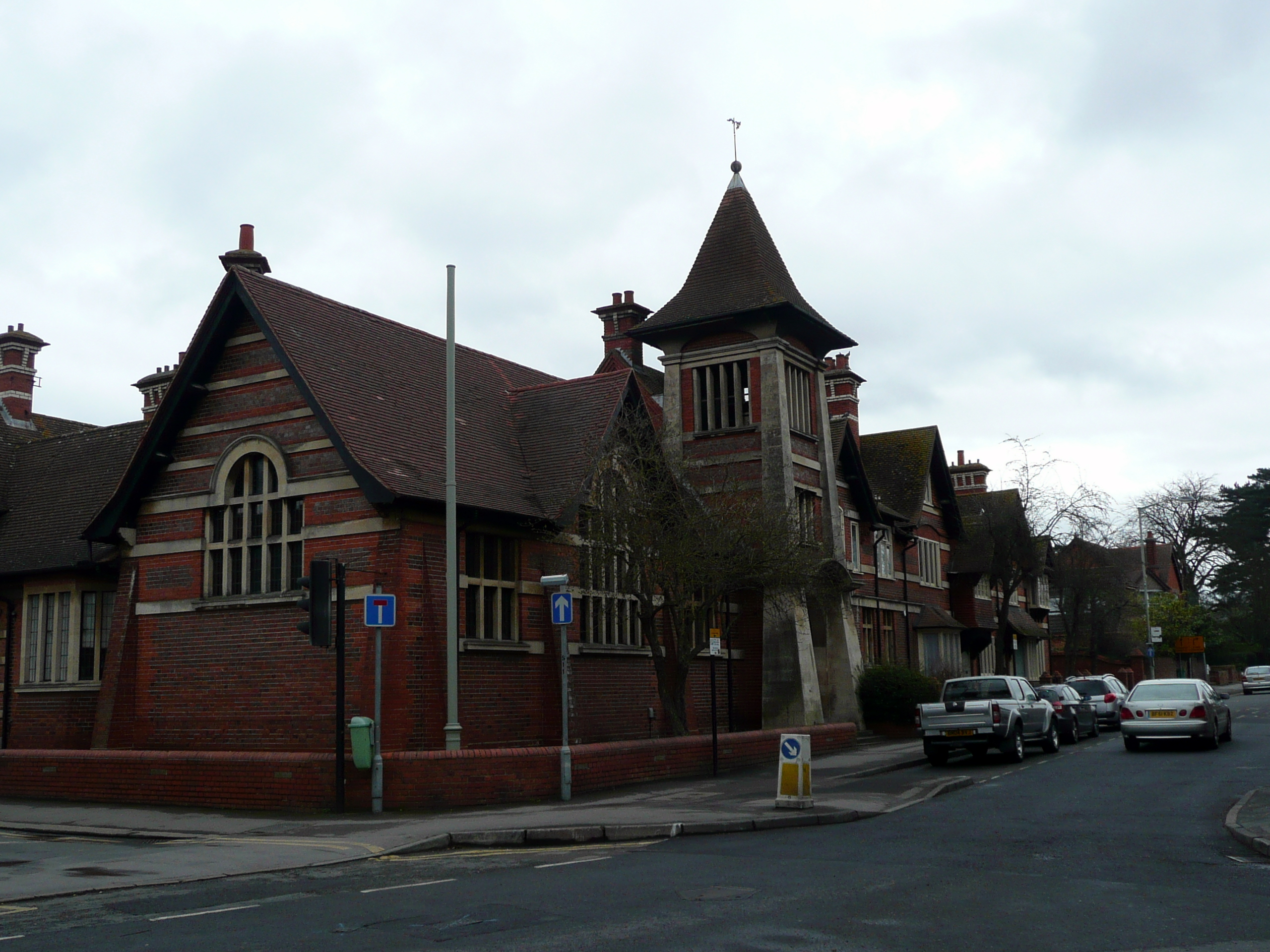 Former Police Station, Rectory Road, Wokingham. Designed by Joseph Morris assisted by his daughter Violet and completed in 1903. To the left is the court room and to the right an additional wing added in 1911.